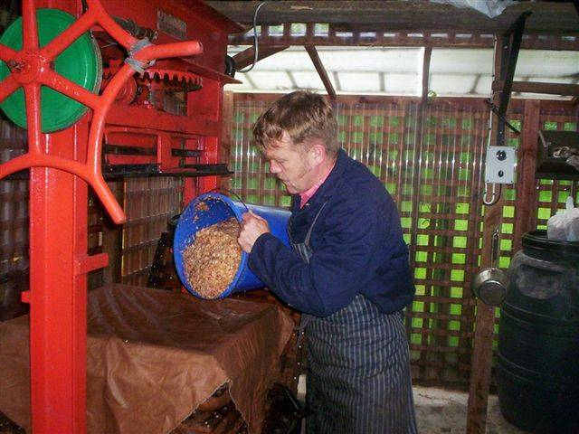 Steve Cooper making the "cheese" of milled cider apples which goes into the press to extract the juice.aug04makingcheese